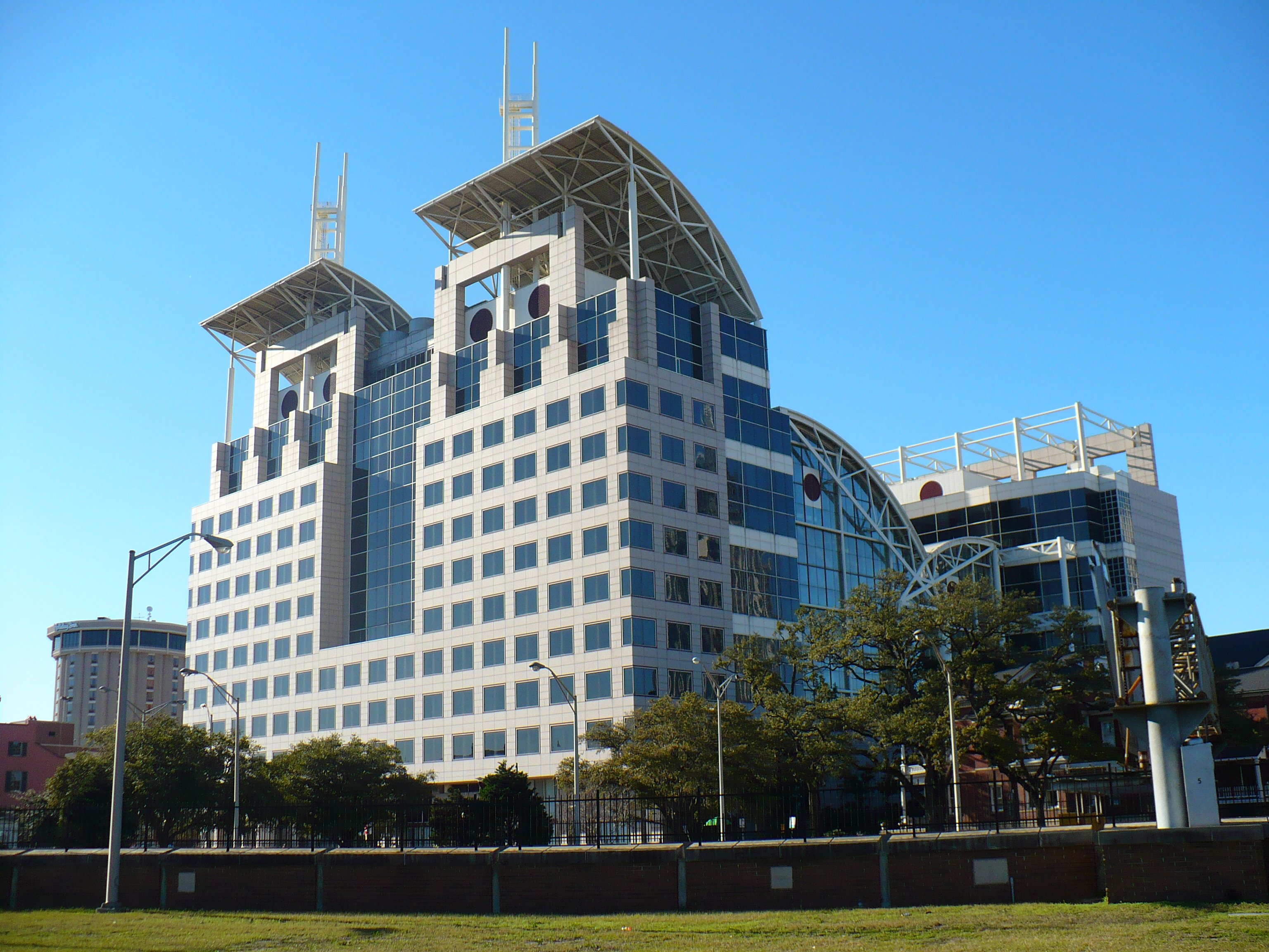 Mobile Government Plaza in Mobile, Alabama. Houses city and county government. View of Church Street facade from the southeast.